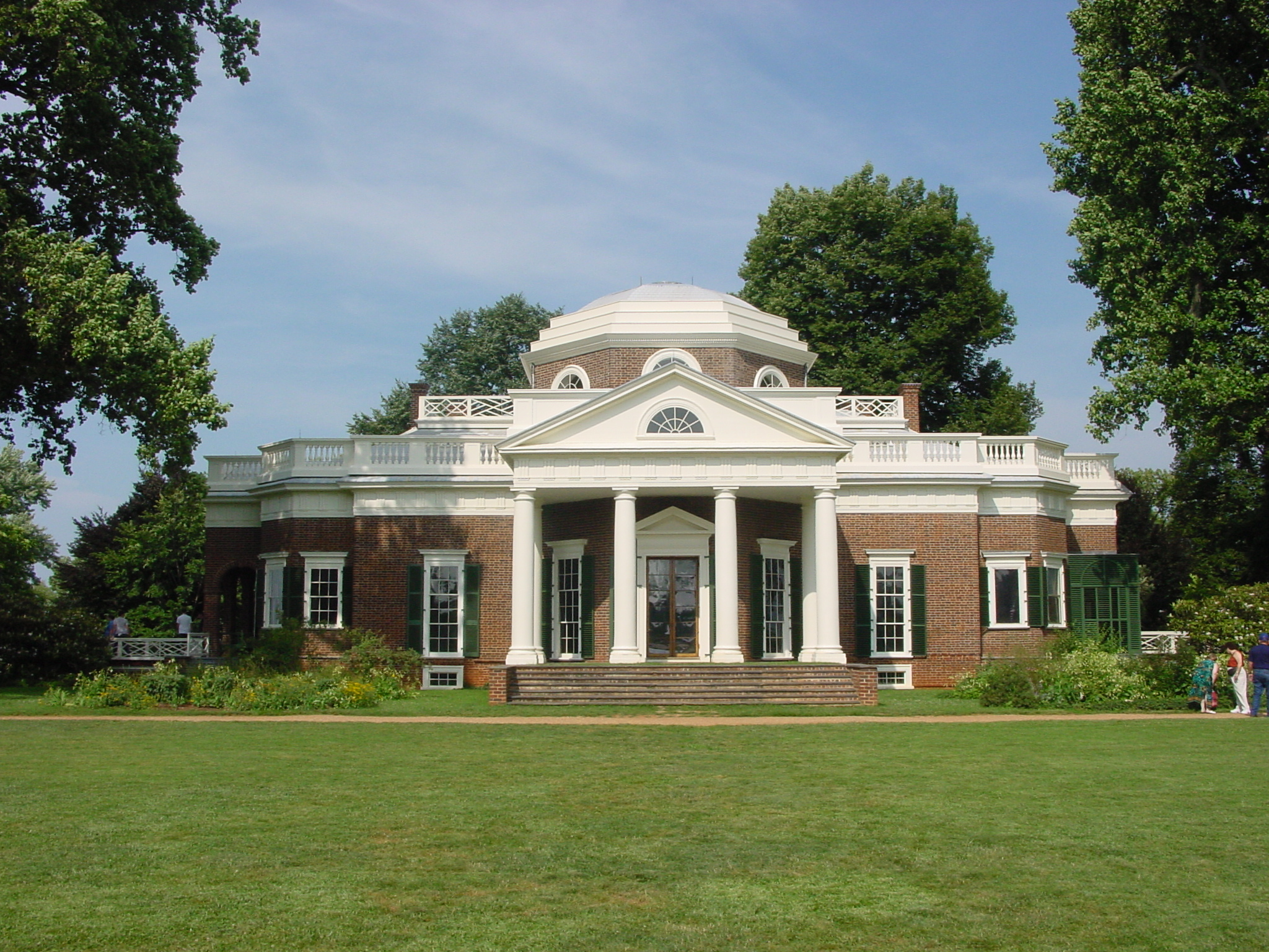 This photograph is of Thomas Jefferson's estate, Monticello, which is located in the Commonwealth of Virginia.